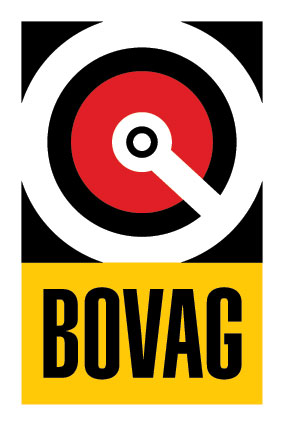 BOVAG logo